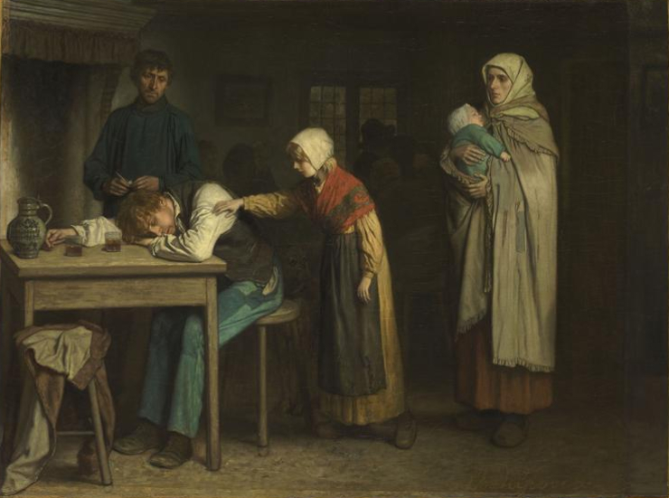 Cabaret scene - The drunk